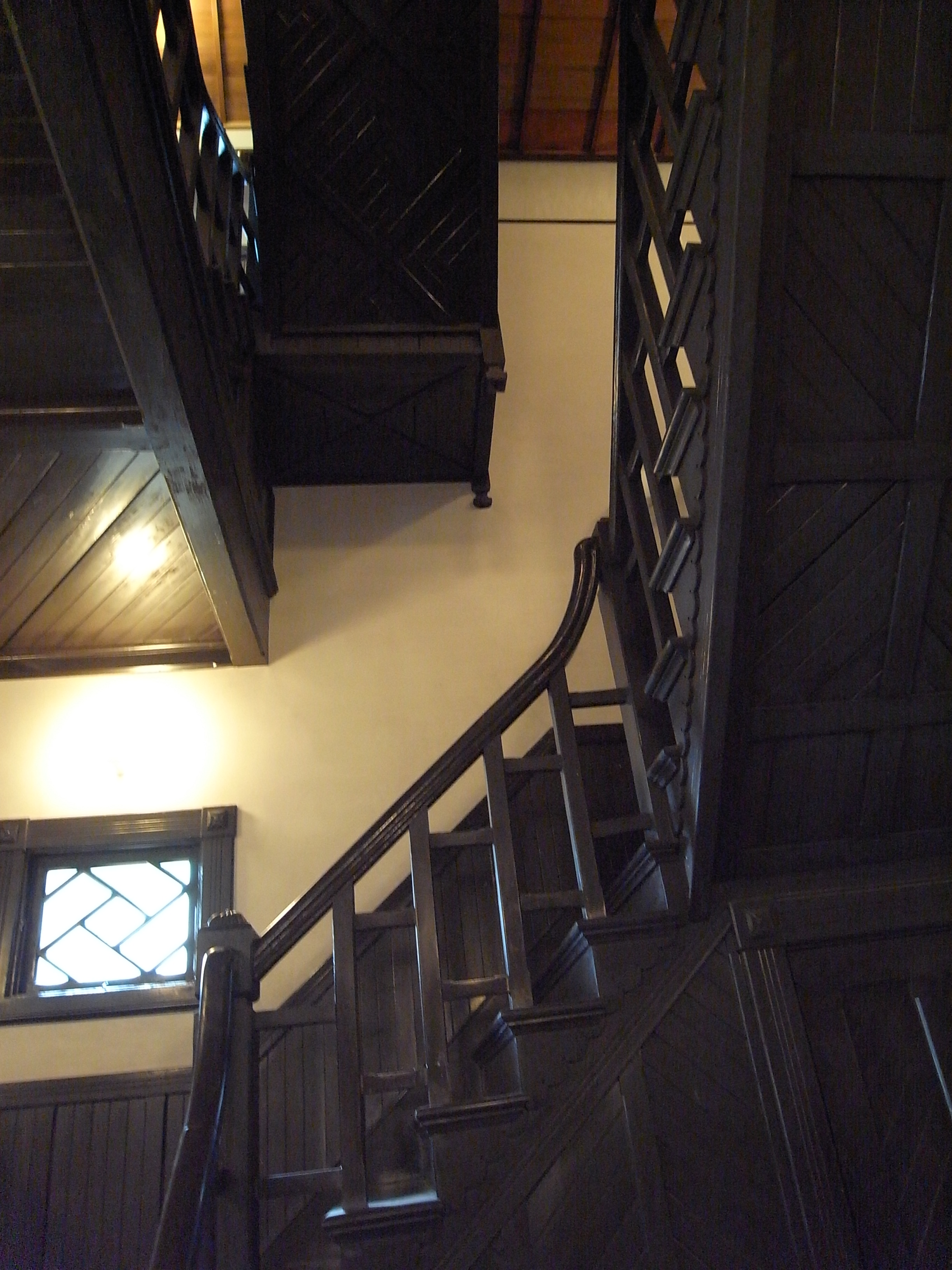 Imbrie Hall at Meiji Gakuin University